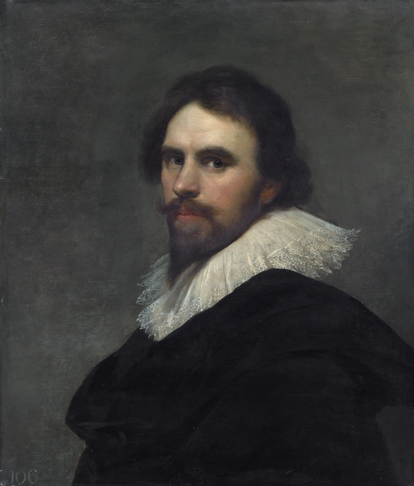 Self portrait oil on panel 68,3 x 58,8 cm circa 1630